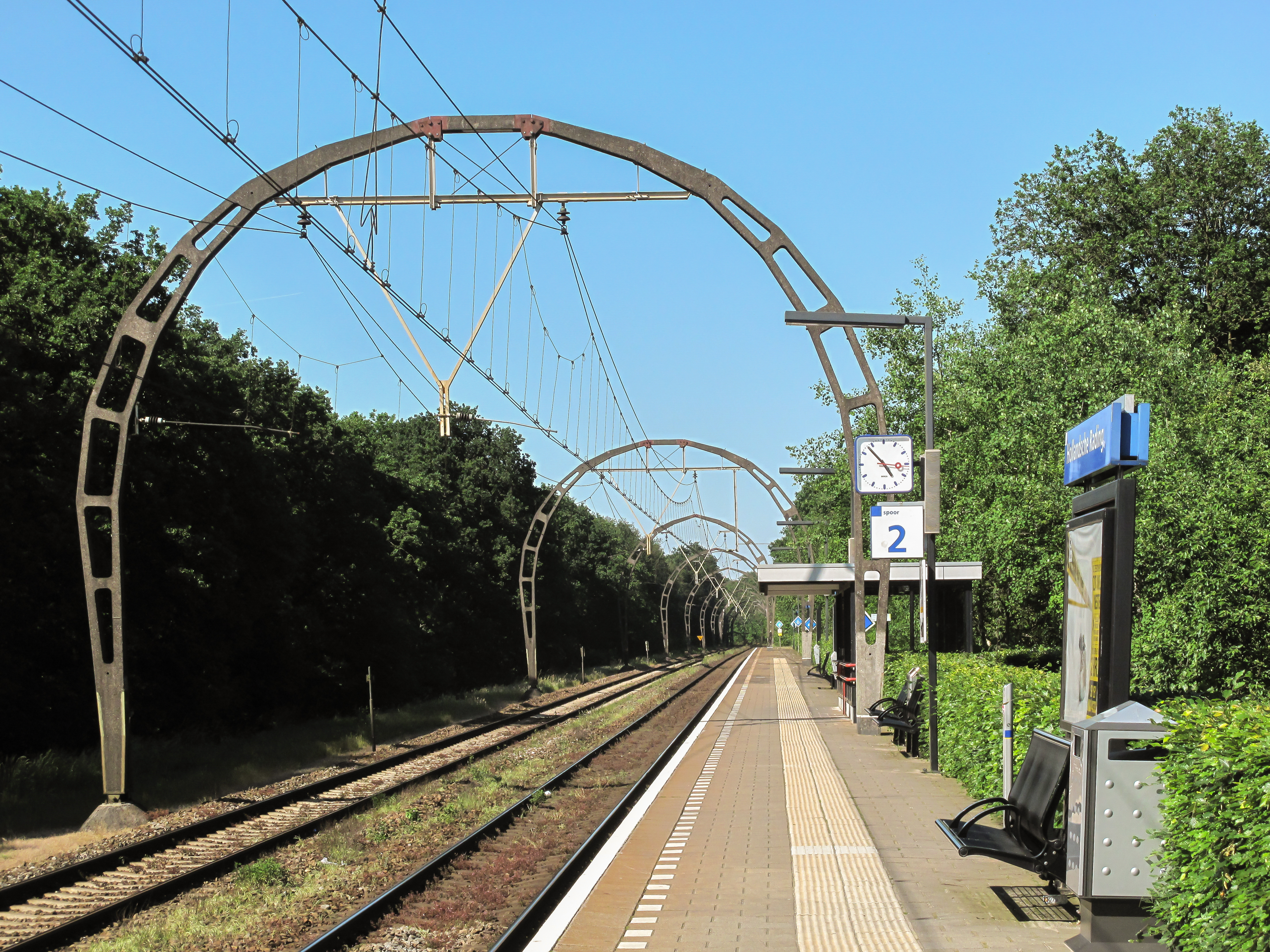 Hollandsche Rading, railway at train station